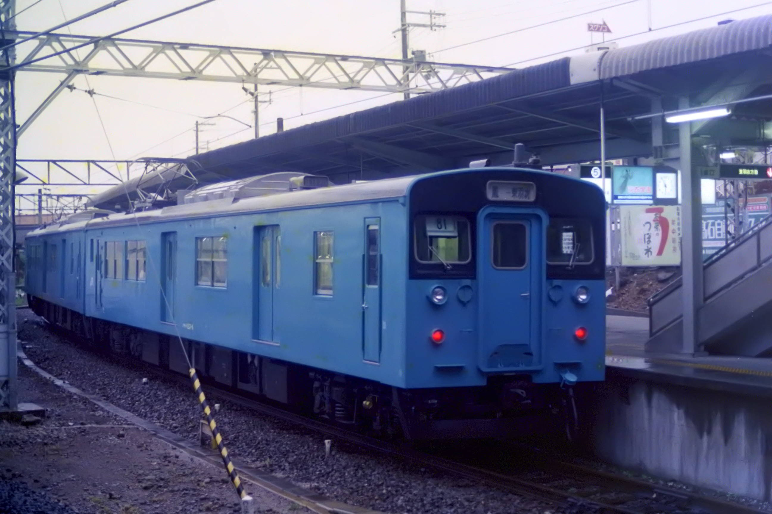 JR West 123 series EMU car KuMoHa 123-5 at Otori Station on the Hagoromo Line